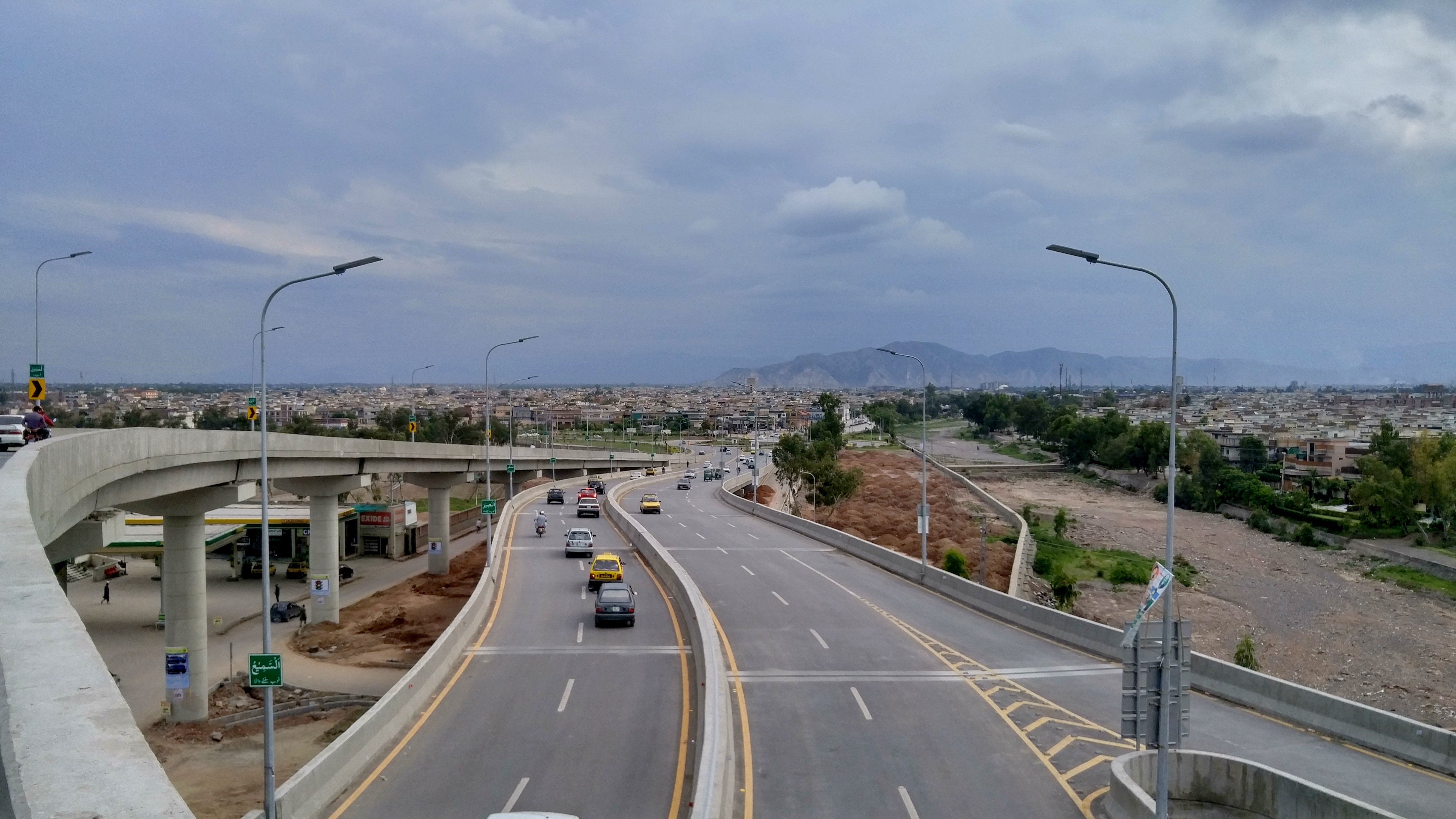 Phase 3 Chowk Hayatabad